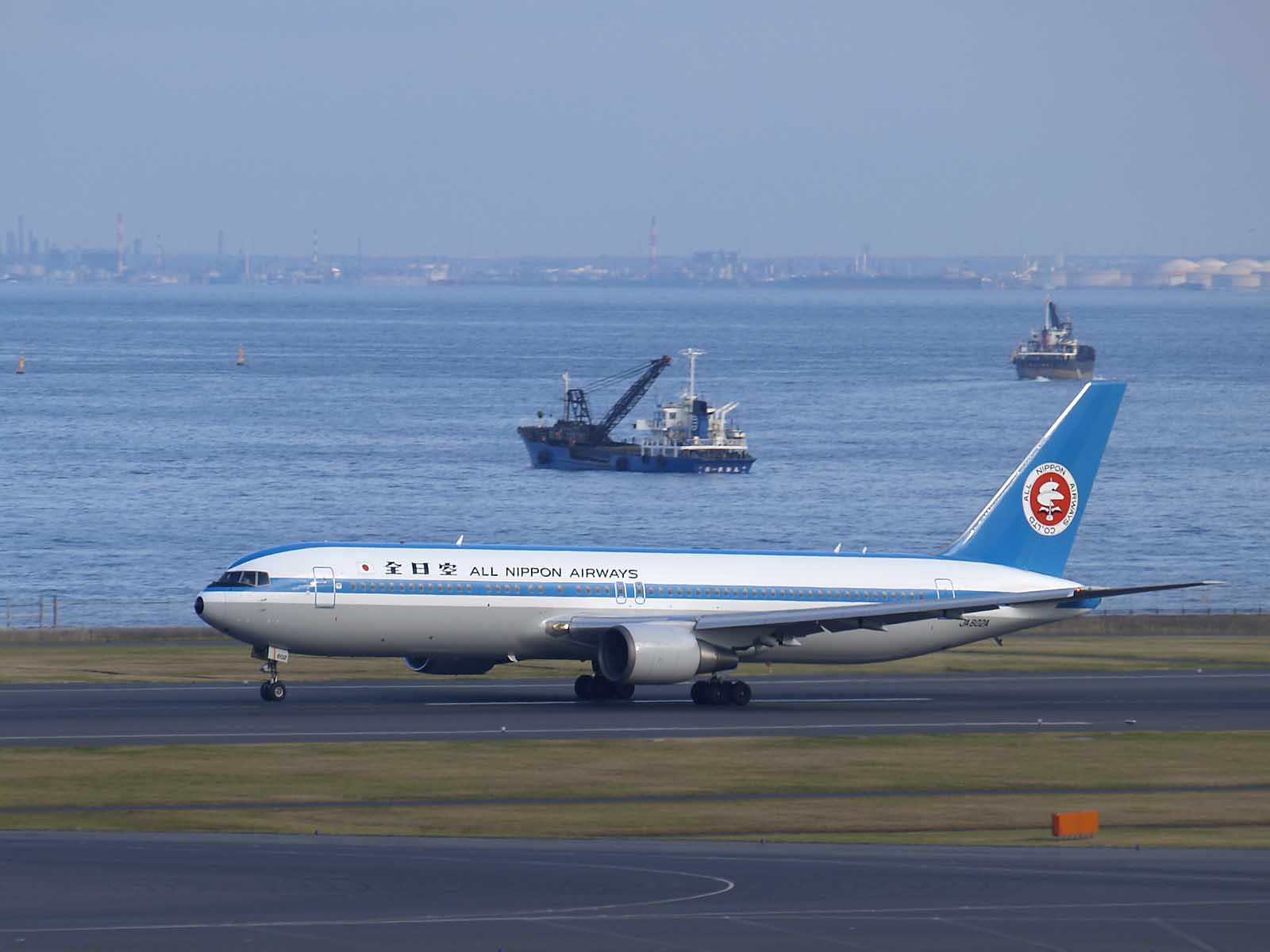 All Nippon Airways "Mohican" returned domestic route since December 2009 until 2013. Model: Boeing 767-381 Fleet Number: JA602A Place: Tokyo International Airport, Japan